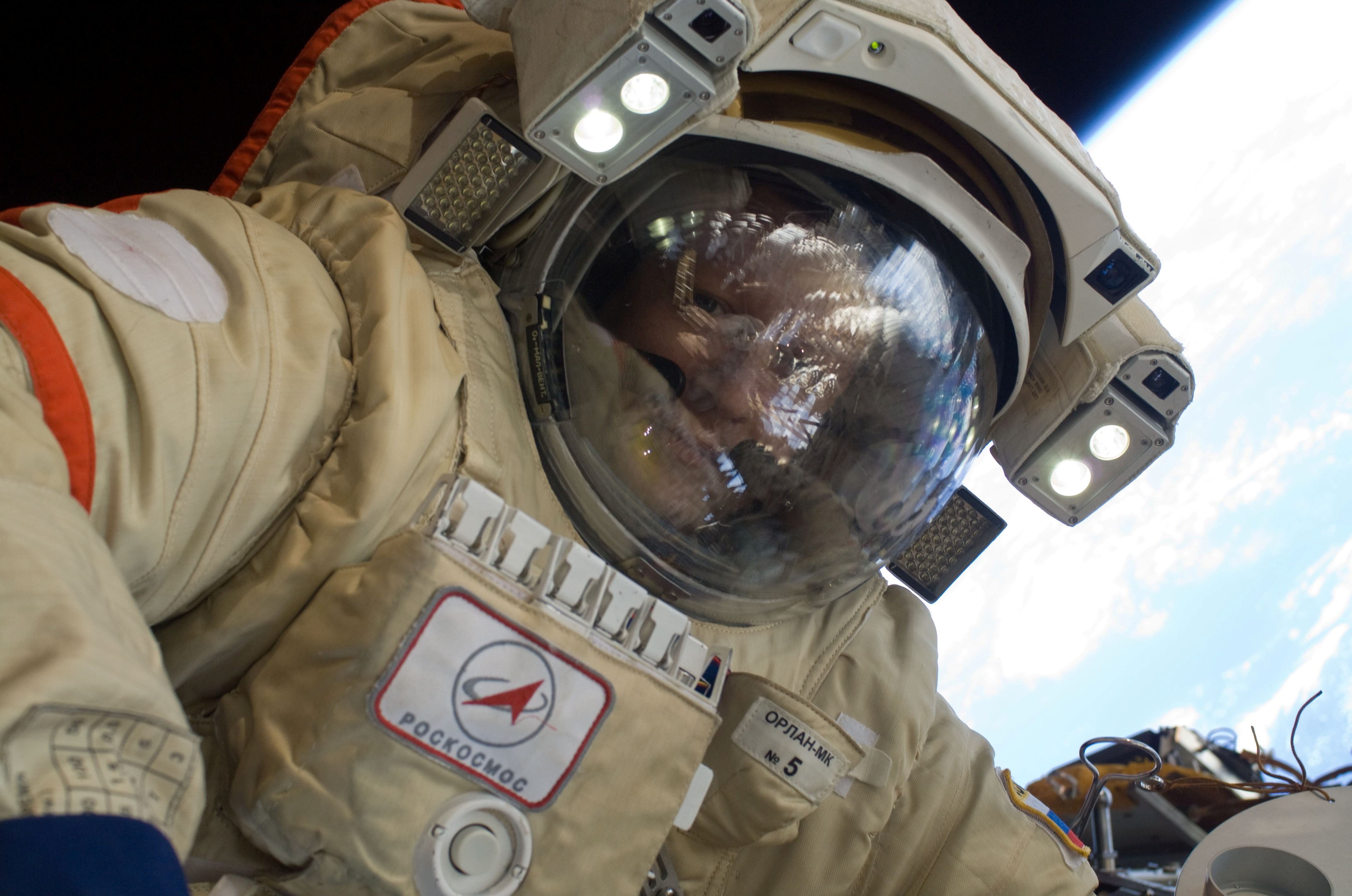 Russian cosmonaut Dmitry Kondratyev, Expedition 26 flight engineer, wearing a Russian Orlan-MK spacesuit, participates in a session of extravehicular activity (EVA) focused on the installation of two scientific experiments outside the Zvezda Service Module of the International Space Station. During the four-hour, 51-minute spacewalk, Kondratyev and Russian cosmonaut Oleg Skripochka (out of frame), flight engineer, installed a pair of earthquake and lightning sensing experiments and retrieved a pair of spacecraft material evaluation panels.